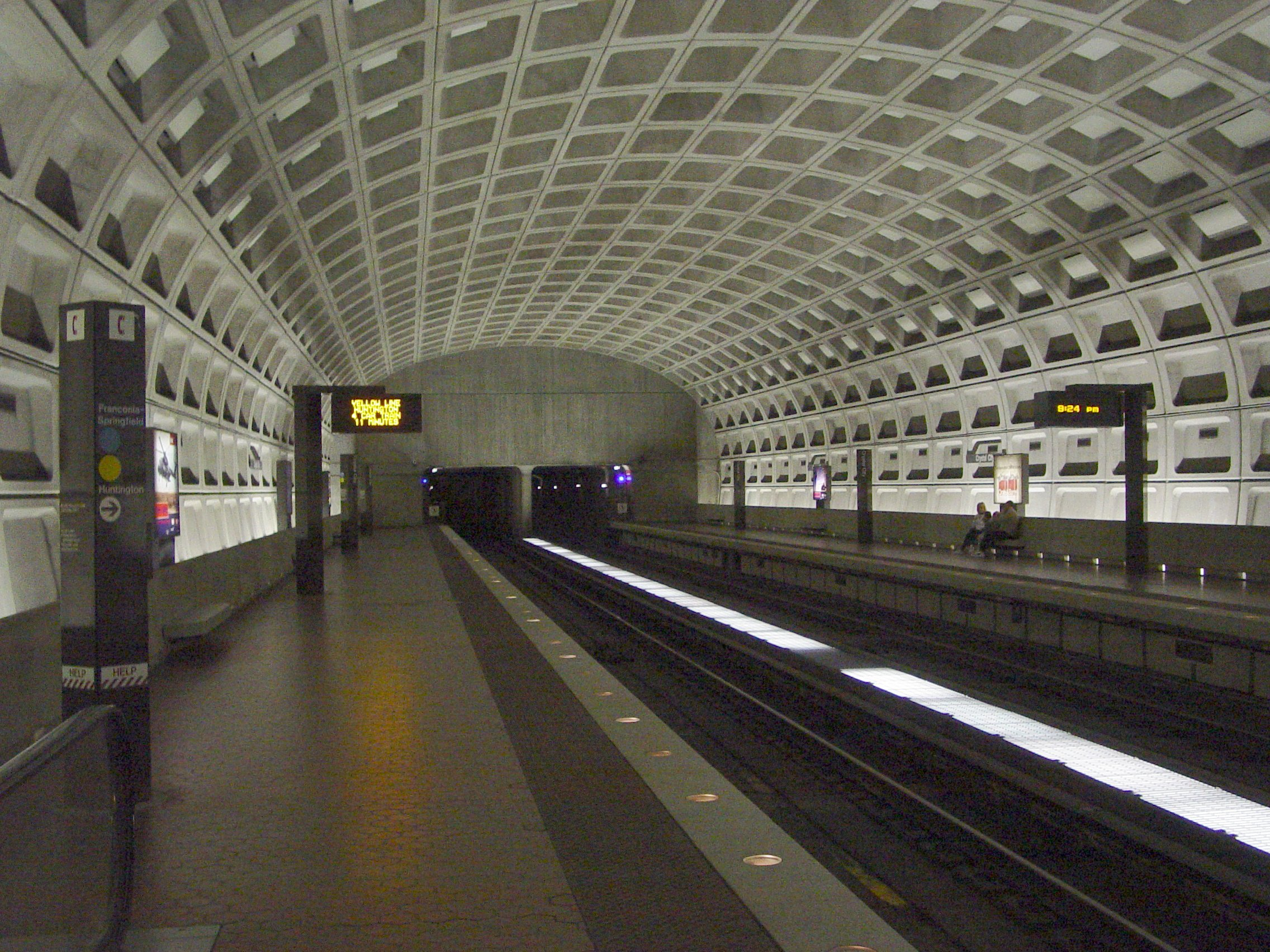 Crystal City station